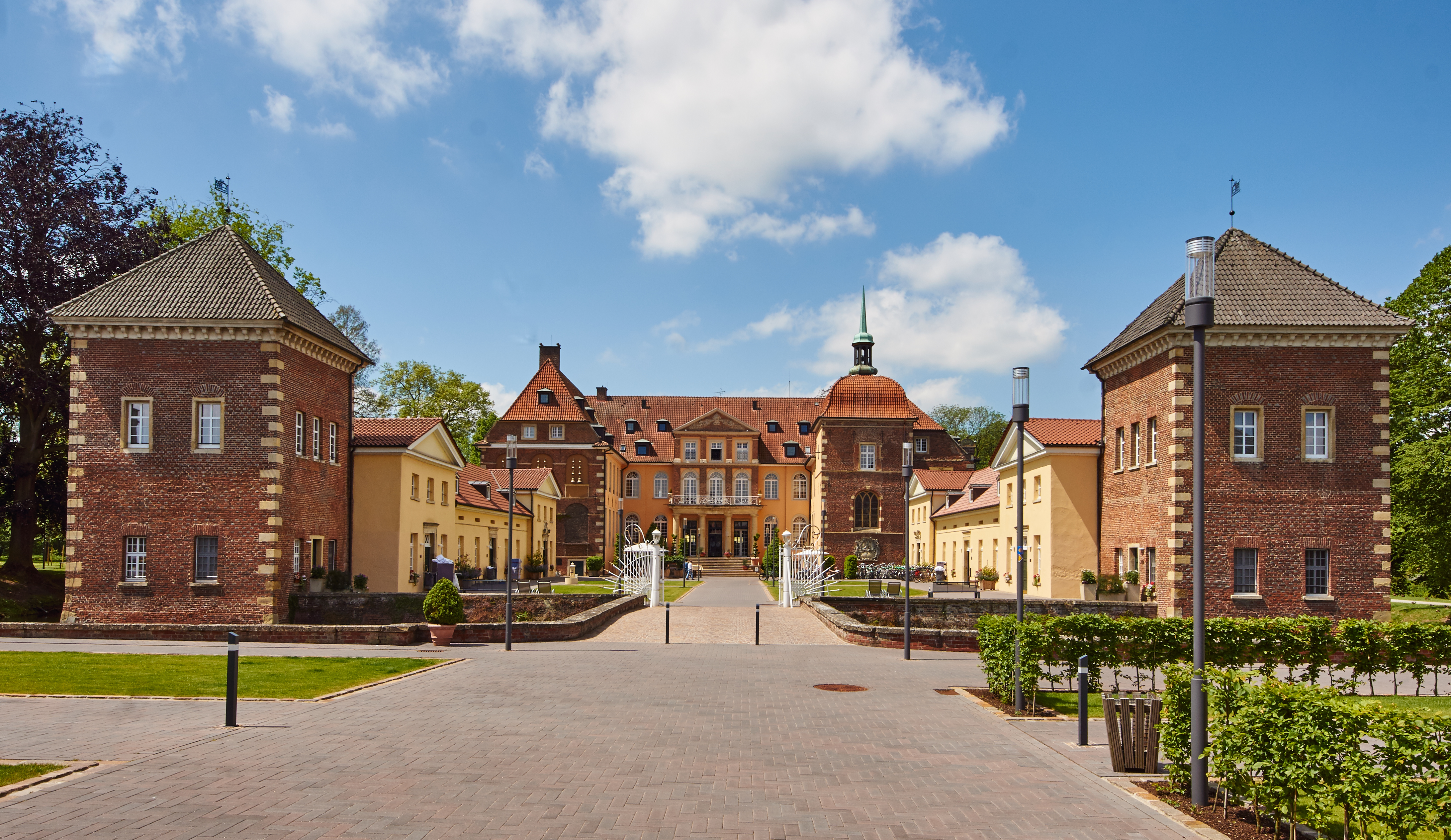 Schloss Velen, Velen This is a photograph of an architectural monument.